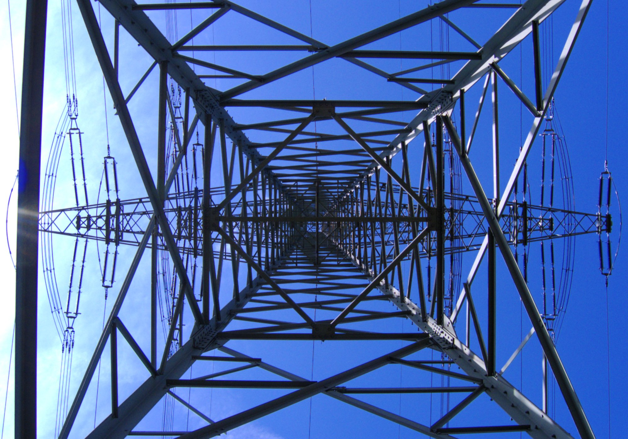 Electricity pylon. Location: Münster, NRW, Germany